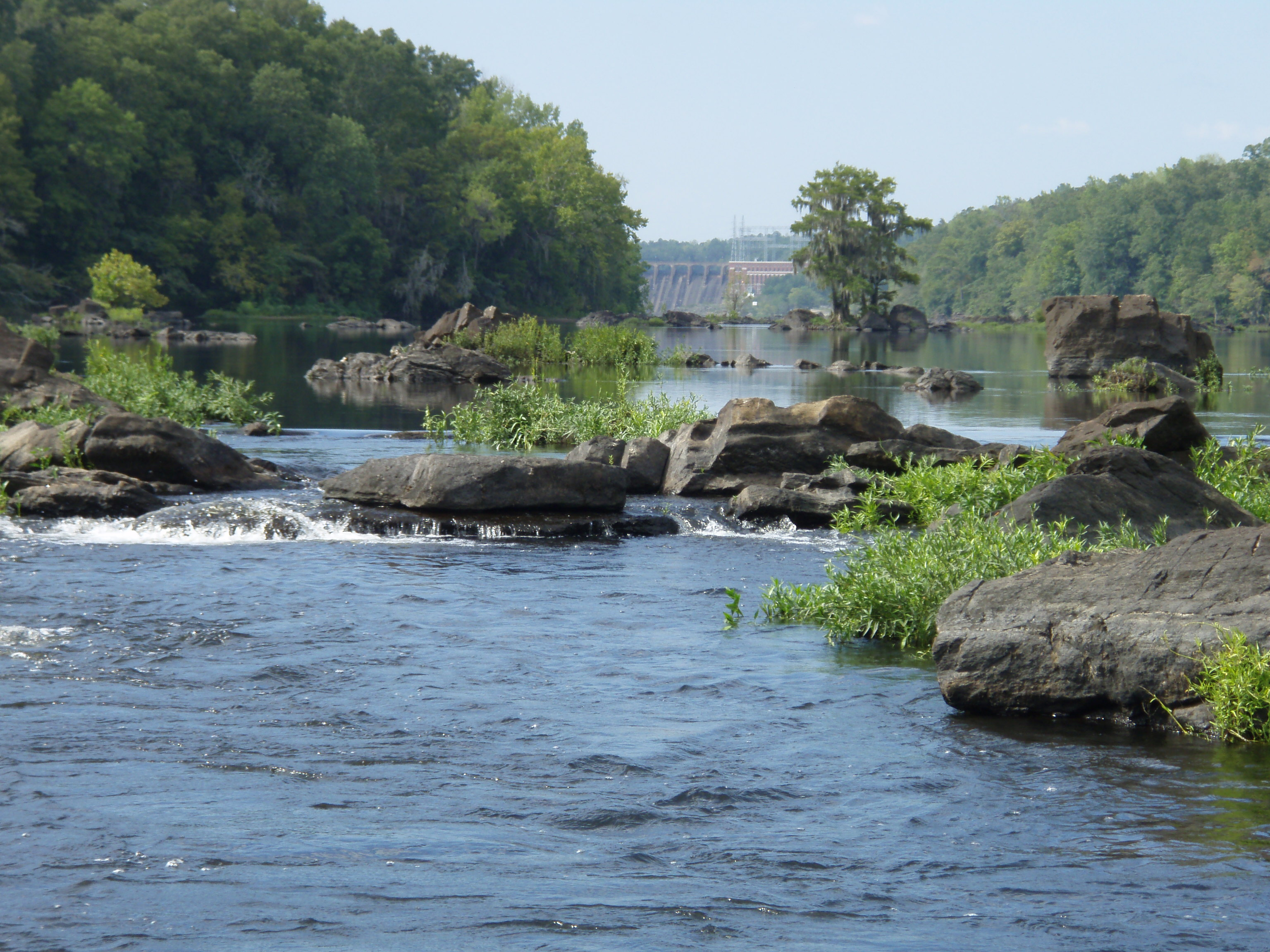 River Falls Section of the Coosa River Near Jordan Dam